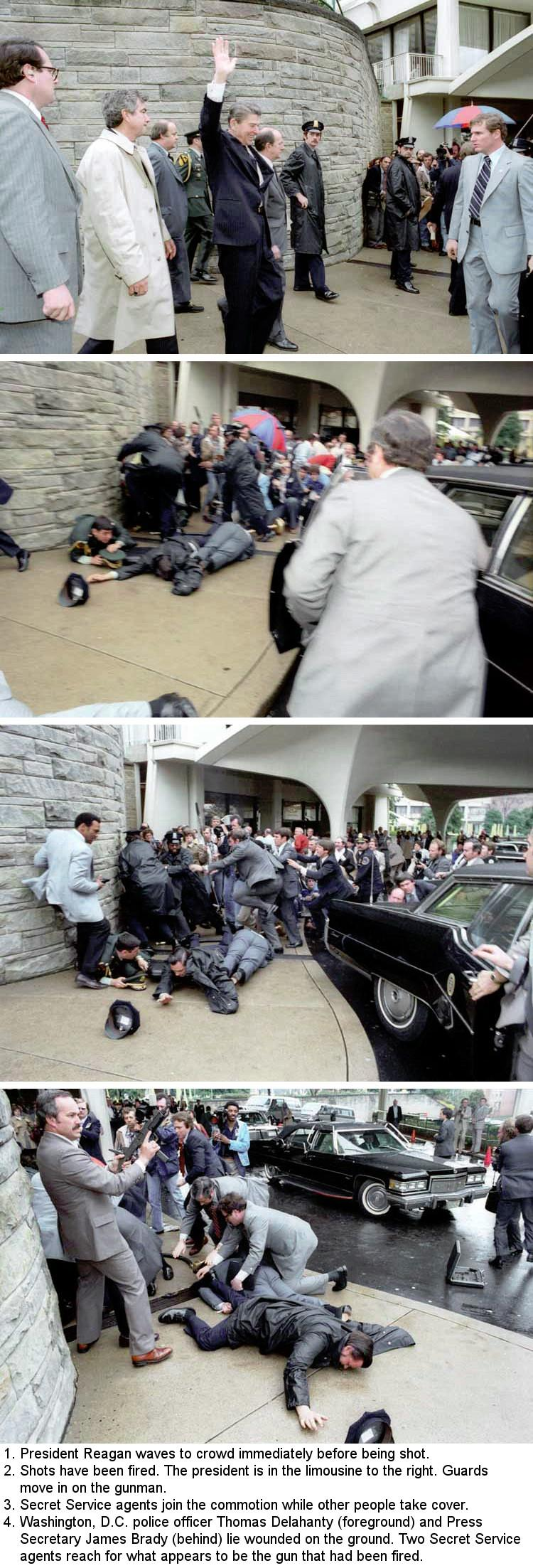 A montage of the Reagan assassination attempt